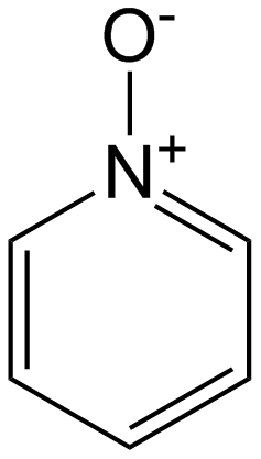 structure of pyridine-N-oxide, showing dipolar resonance structure